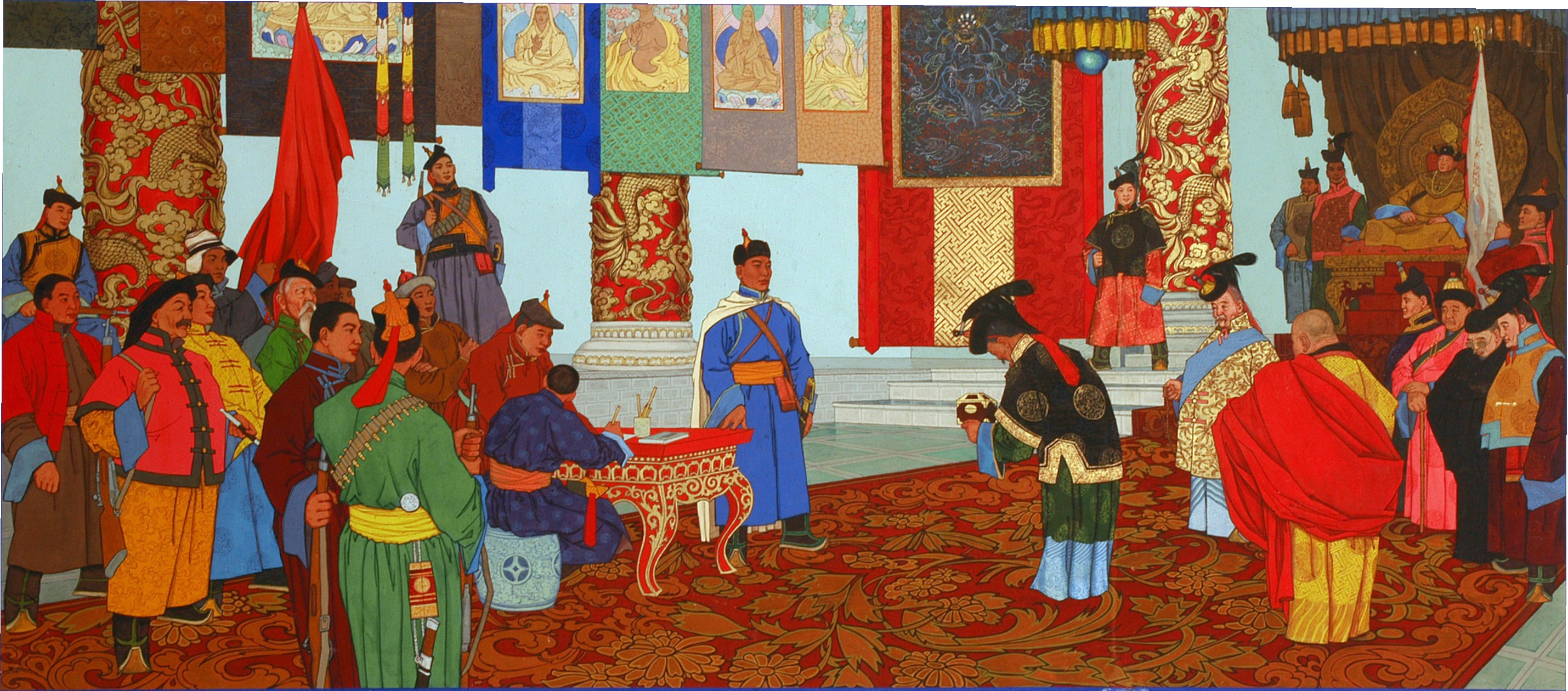 Sükhbaatar accept power in the Winter Palace of the Bogd Khan Монгол: Д.Сүхбаатар 1921 оны долдугаар сарын 10-ны өдөр Нийслэл хүрээнд Эвслийн засгийн газар байгуулагдахад Цэргийн яамны тэргүүн сайдаар Богд хааны зарлигаар томилогдсон юм